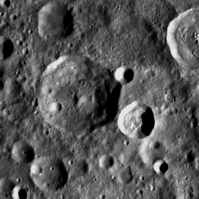 Dante crater is at the center (slightly left) of the image